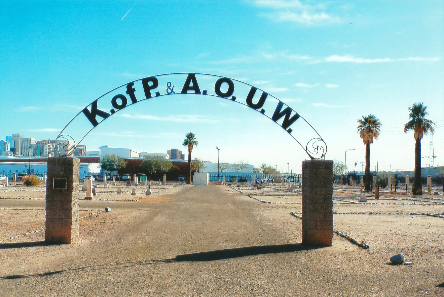 Entrance to the "Knights of Pythias" (K of P) Cemetery of the Pioneer and Military Memorial Park.